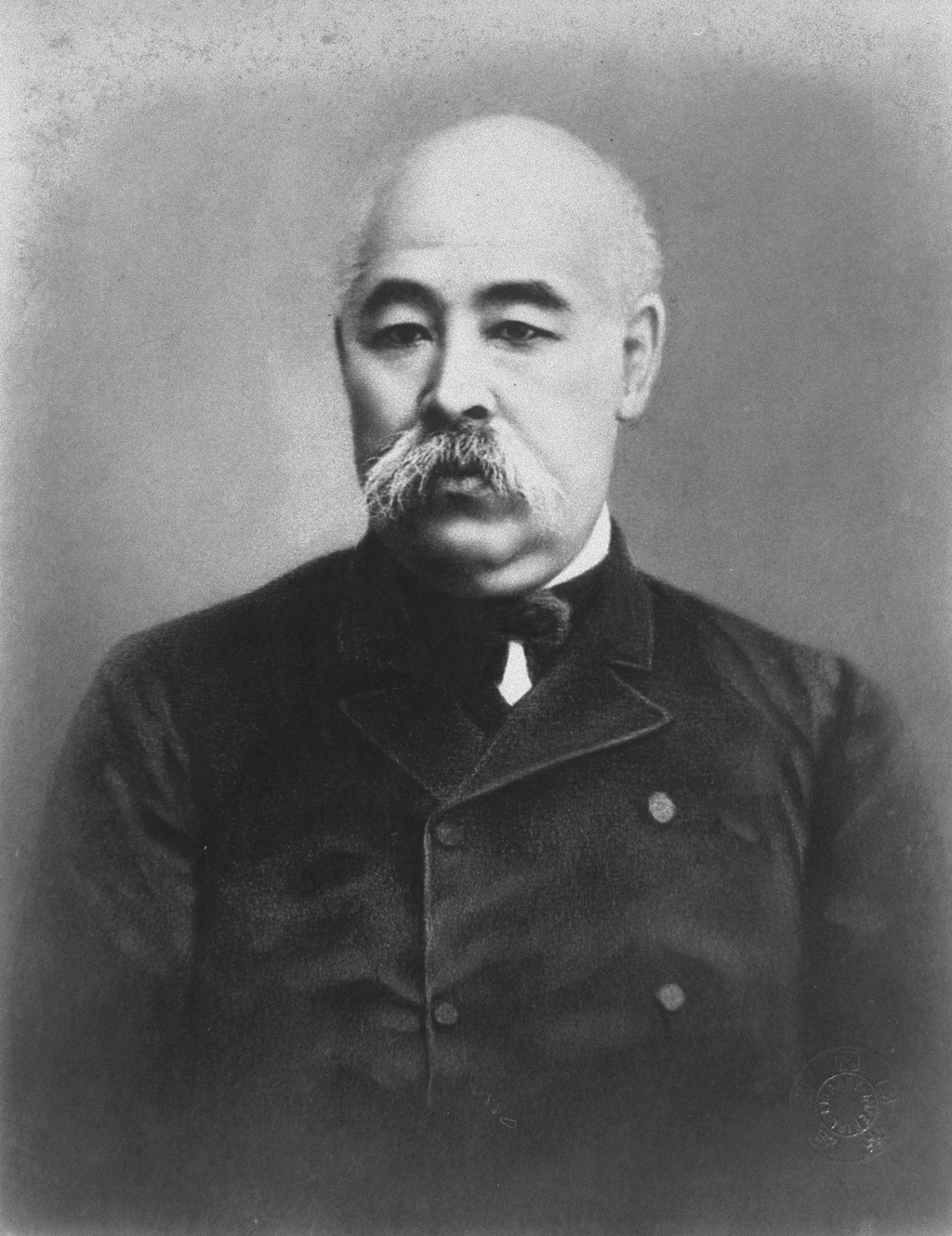 Portrait of Gotō Shōjirō (後藤象二郎, 1838–1897)